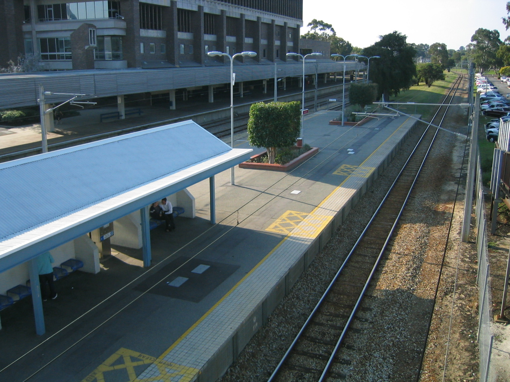 Transperth East Perth Train Station